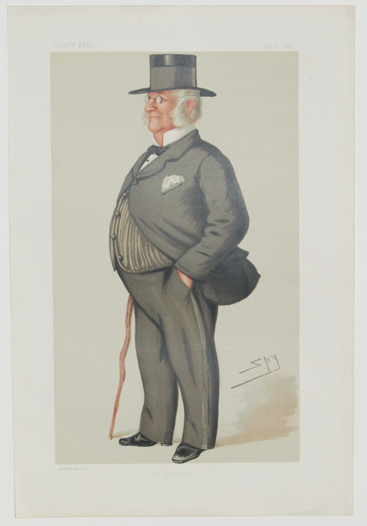 Statesmen No.275: Caricature of Sir James Dalrymple-Horn-Elphinstone Bt MP. Caption reads: "the Admiral"